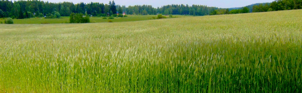 A grain field in Vihti, Finland